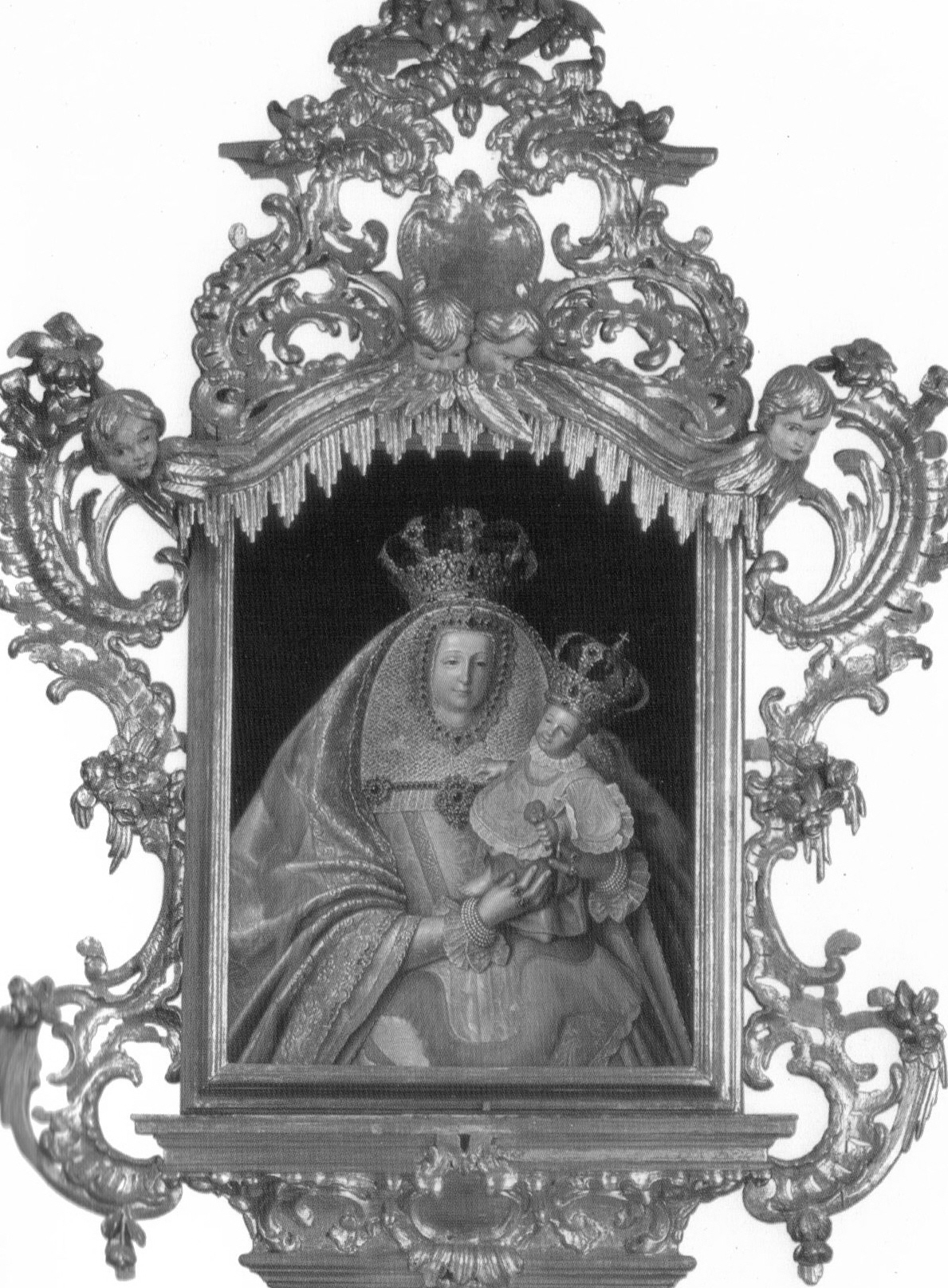 Picture of the Virgen del Pino of the Cathedral of Canarias